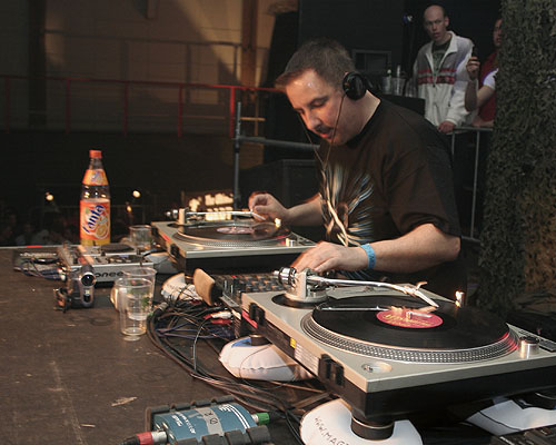 Digital overdose Amsterdam